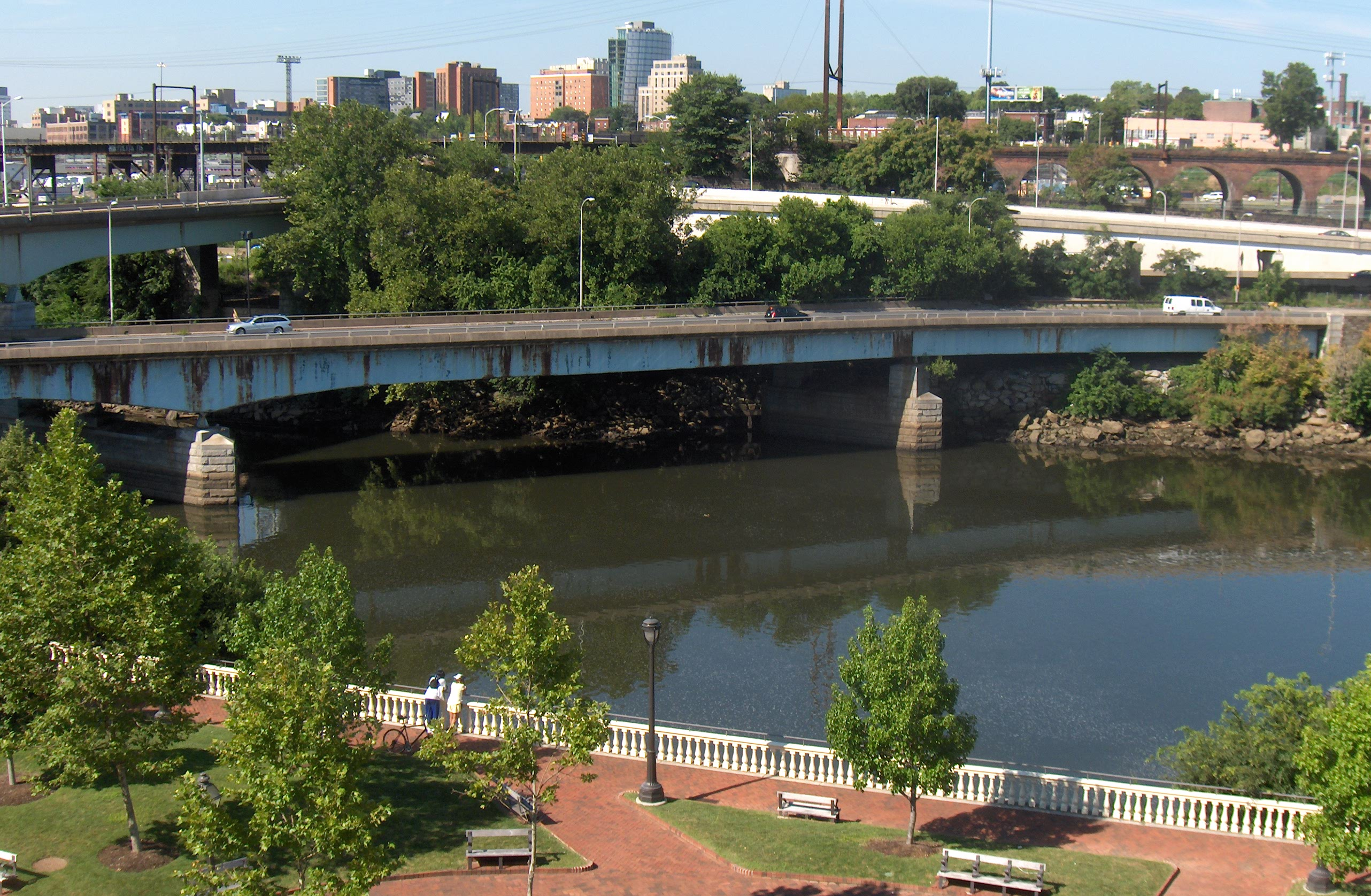 The West River Drive Bridge is a steel girder bridge built in 1966 over the Schuylkill River on West River Drive. Upper bridge on left is the Spring Garden Street Bridge. View looking south from the Art Museum Drive.